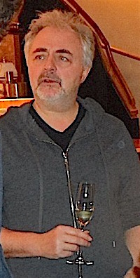 Photo of the artist Klaus Brantzen taken by myelf; event in Wiesbaden on November 21, 2015.